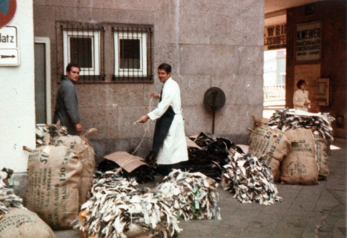 One of the photographs taken around or relating to the fur trade center Niddastrasse, Frankfurt am Main, Germany.